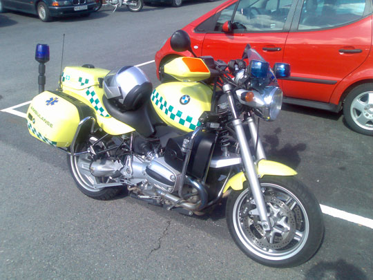 Norwegian MC ambulance